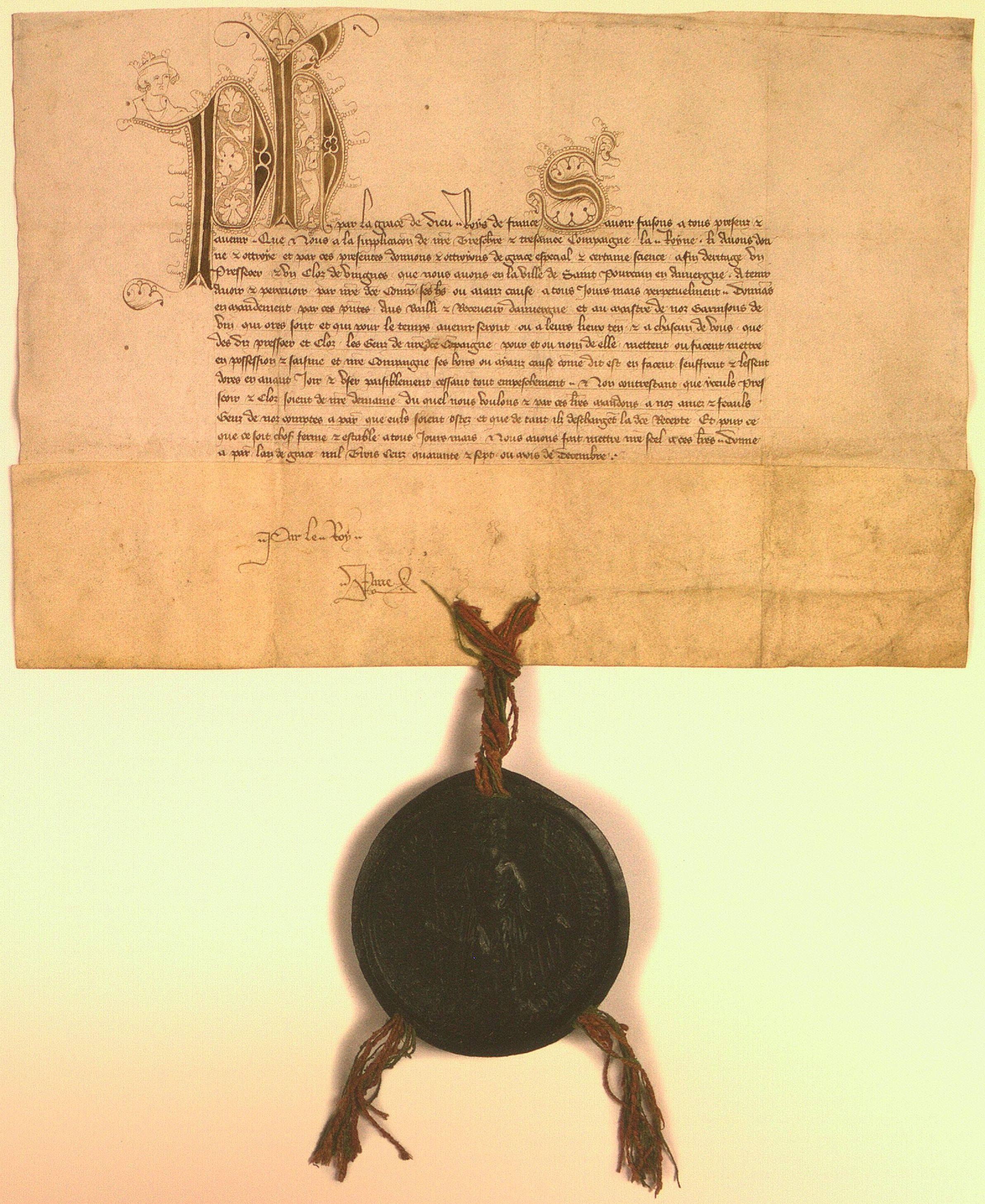 A charter of King Philip VI of France for his wife, Joan the Lame. Paris, Archives nationales, J 357 B, No. 15.